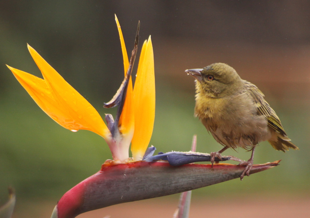 The non-breeding southern masked weaver came back to the Strelitzia